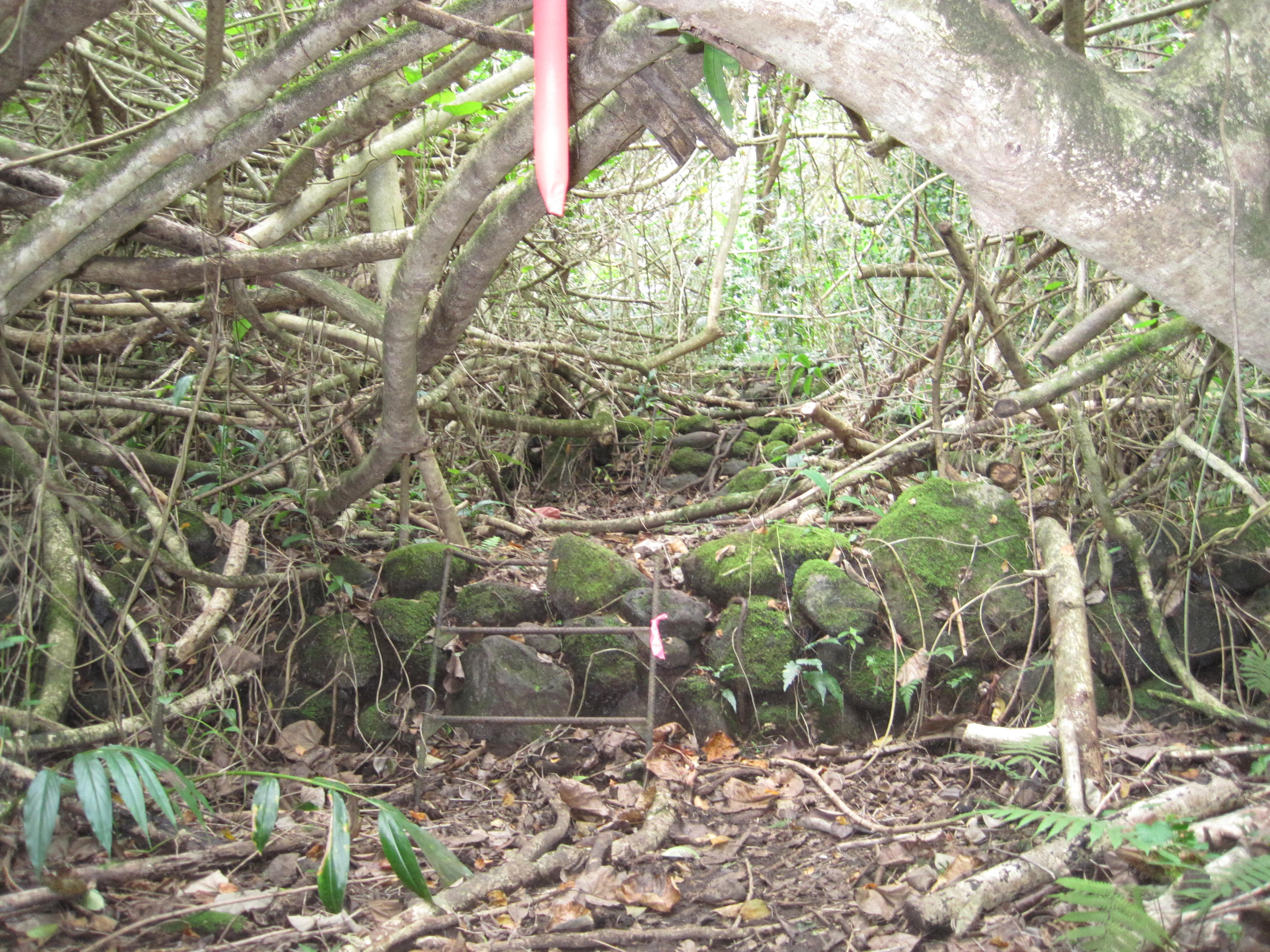 Stepped terrace walls under hau trees, at Kahaluʻu Taro Loʻi, Ahuimanu, Kahaluu, on Oahu, Hawaii on National Register of Historic Places